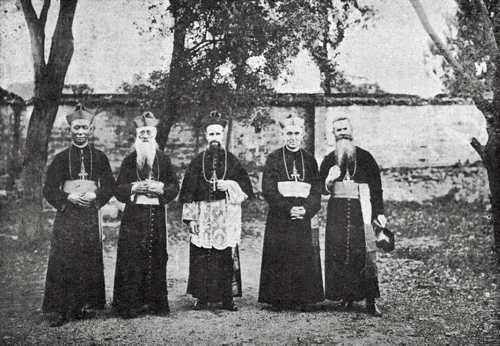 In the middle of the picture, Federico Melendro Gutiérrez, apostolic vicary of Anqing since 1930. On his right, a Lazarist father and Simon Tsu, and on his left, Vicente Huarte y San Martín, designed as apostolic vicary of Wuhu (then known as Nganhoei) in 1922 and father Haovisée.